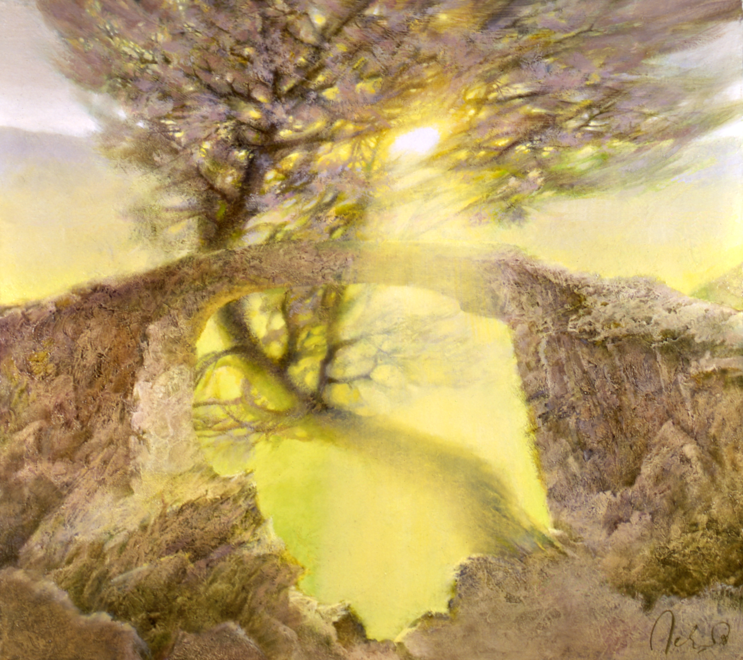 Painting of ukranian artist Oksana Levchishina